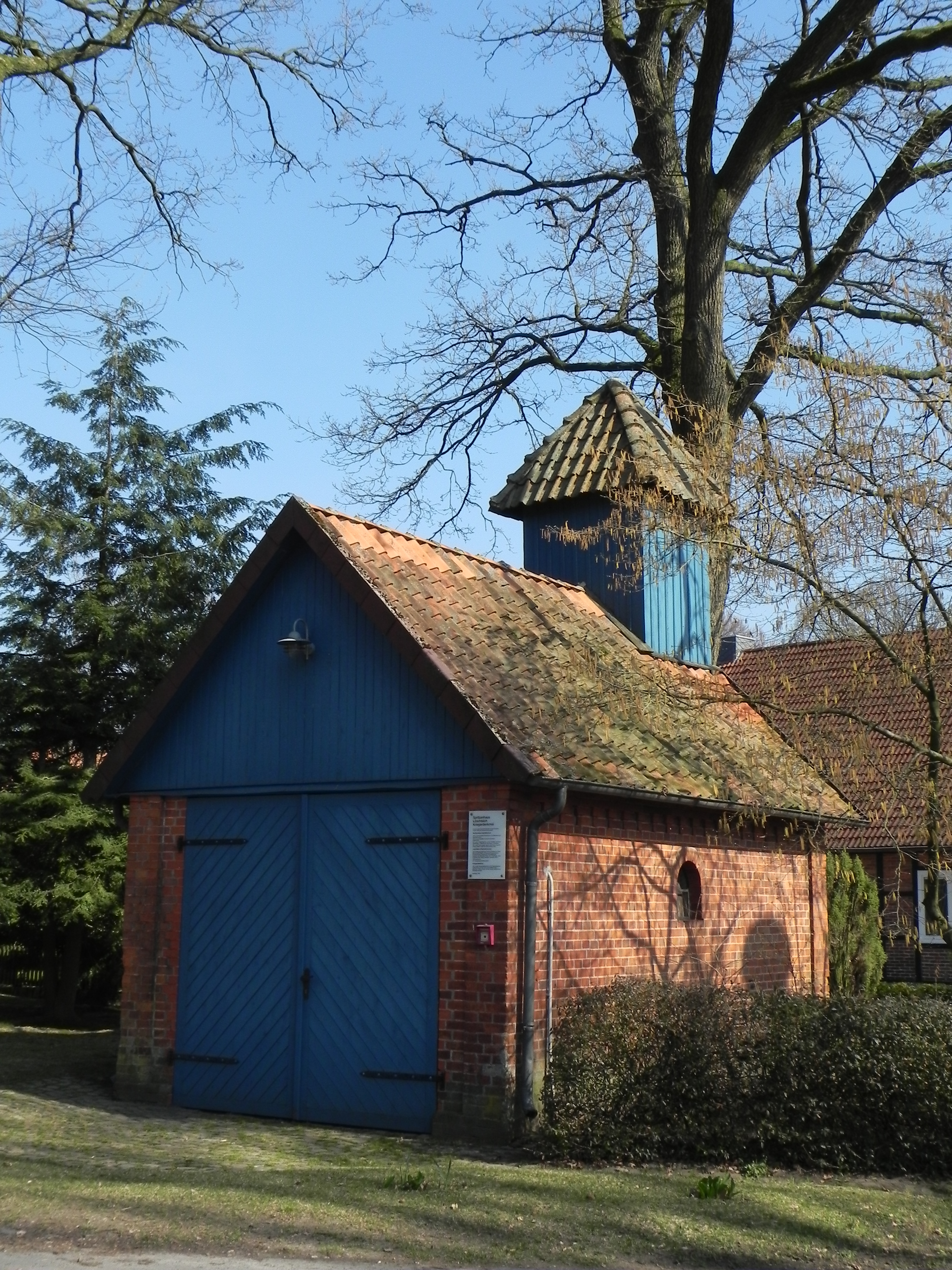 The old fire engine house in Becklingen; built 1907. Now used as a store. Lower Saxony, Germany.